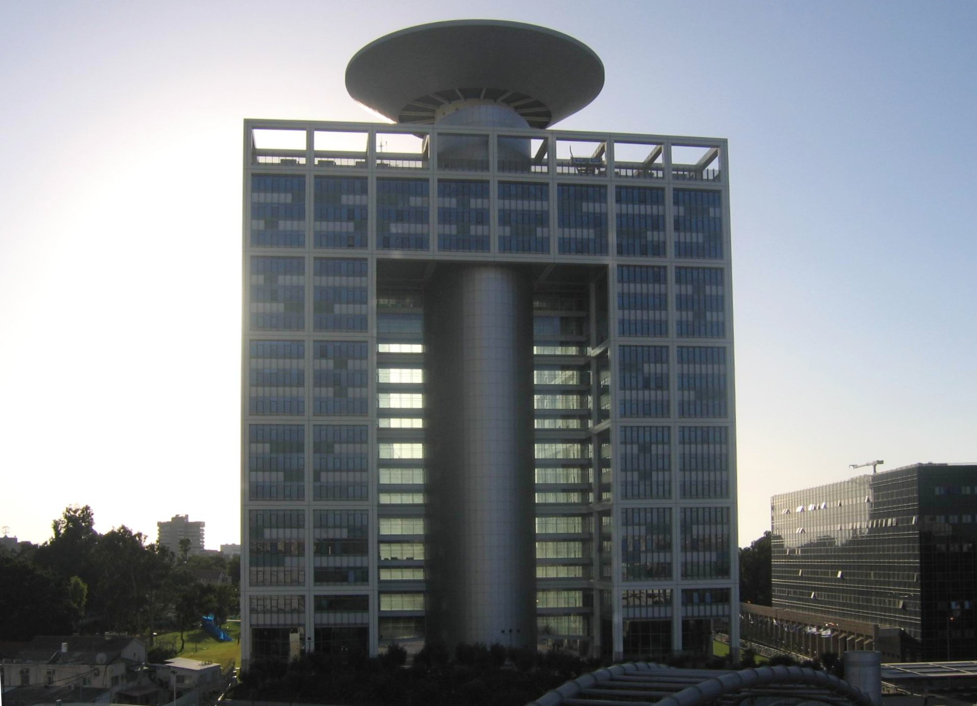 The newest building in the Kyria Military base, in Tel Aviv, Israel. Houses the Ministry of Defense. Taken from the roof of the Azrieli Shopping Center, across the road. Taken by Beny Shlevich on Sept. 25th, 2005.